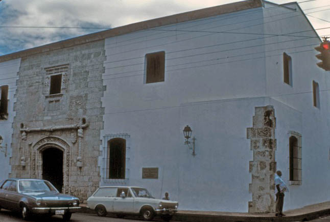 OLDEST PRIVATE DWELLING IN THE NEW WORLD BUILT IN 1509 AND LIVED IN BY DIEGO COLUMBUS AND MARIA DE TOLEDO. SO-NAMED BECAUSE OF THE CORD OF THE FRANCISCAN ORDER ABOVE THE DOOR. NOW HOUSES A BANK